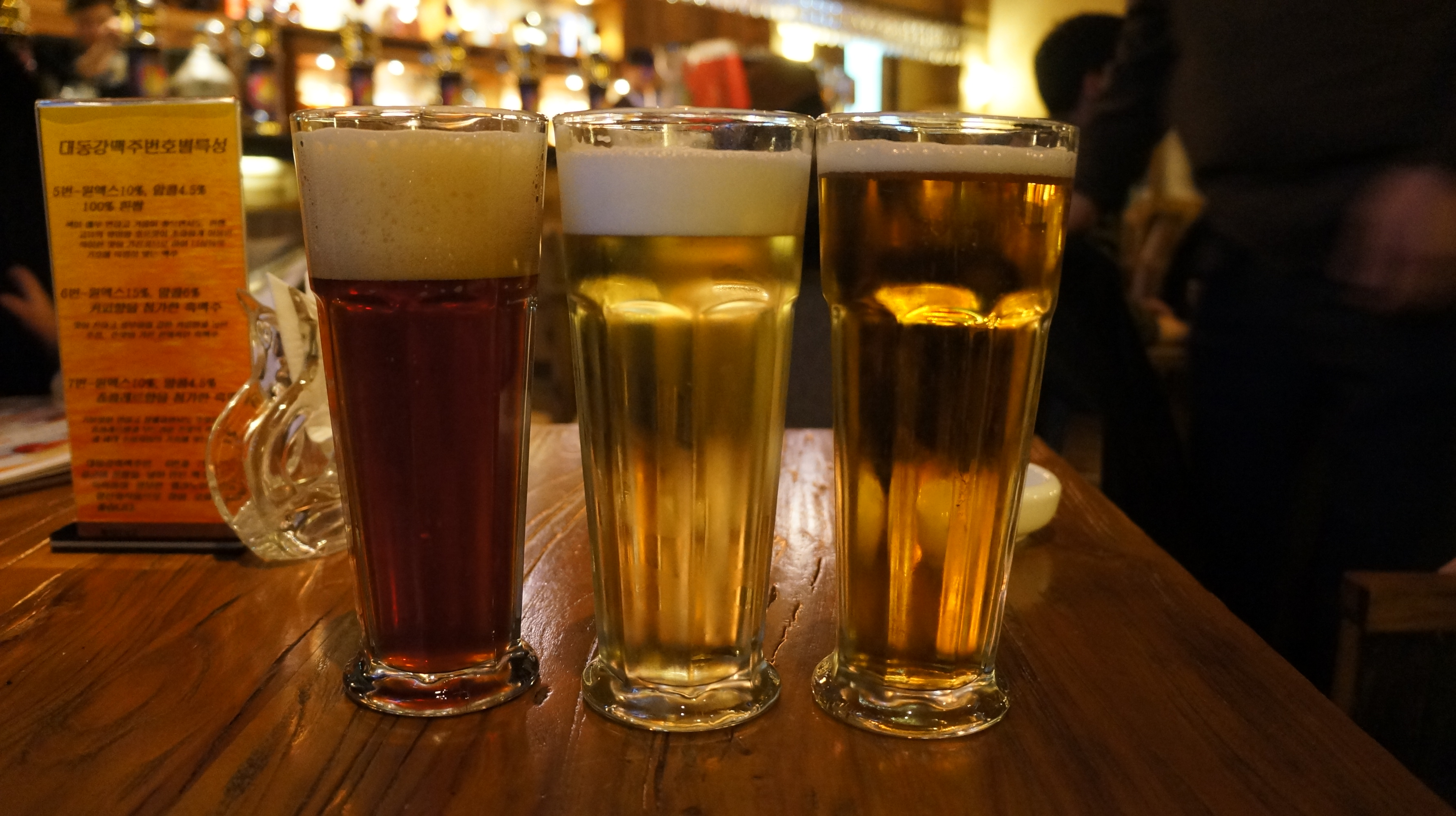 Taedonggang Microbrewery No. 3 is the trendiest bar in Pyongyang. It serves 7 different types of beer. This picture shows No. 6, 5 and 1 from left to right. No. 6 is a dark beer made of Barley infused with coffee notes, 6% alcohol. No. 5 is 100% pure white rice, 4.5% alcohol content. Hot seller! No. 1 is 100% Barley, 4.5% alcohol content. Signature drink.